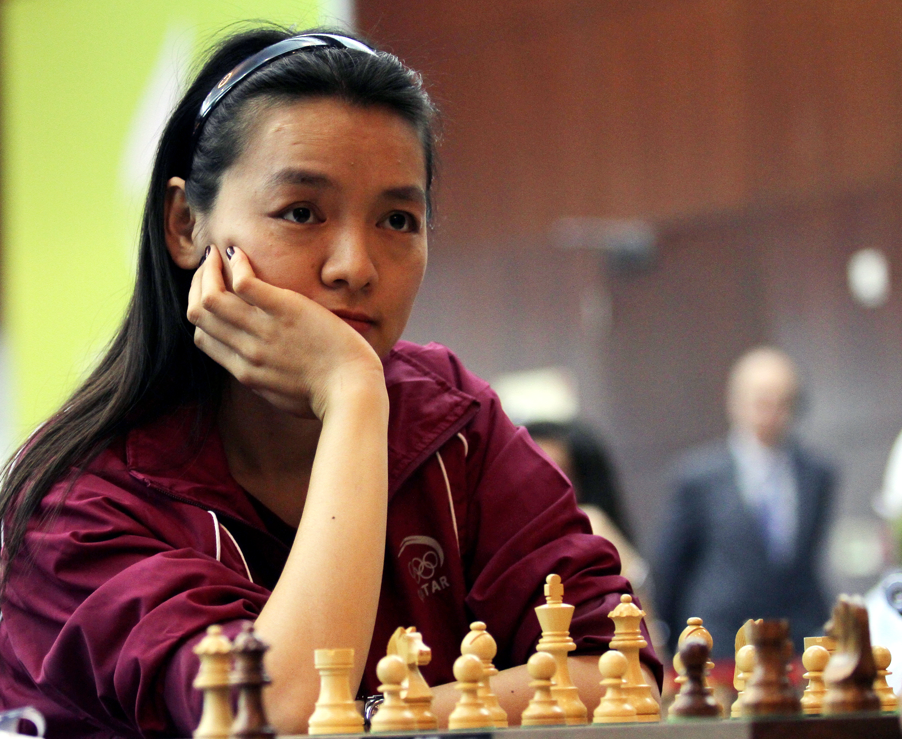 Qatar's Zhu Chen competes in the women's individual blitz final of the Doha Arab Games at the Qatar Women's Sport Indoor Hall. Picture by Vinod Divakaran